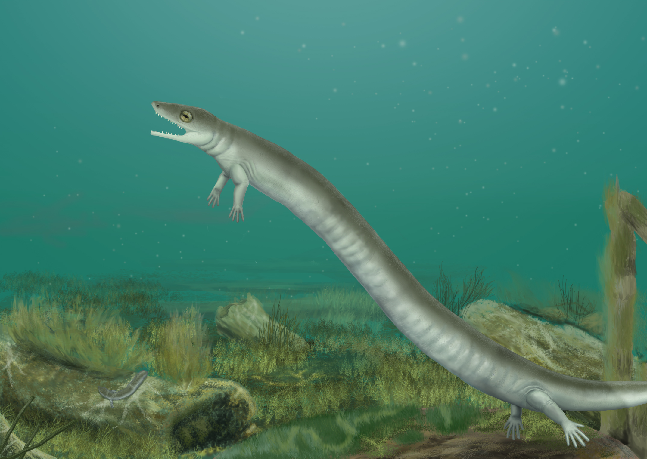 Life restoration of Micraroter erythrogeios. Based on Figures 53 and 58 of The Order Microsauria by Robert Carroll and Pamela Gaskill. Memoirs of the American Philosophical Society Volume 26.